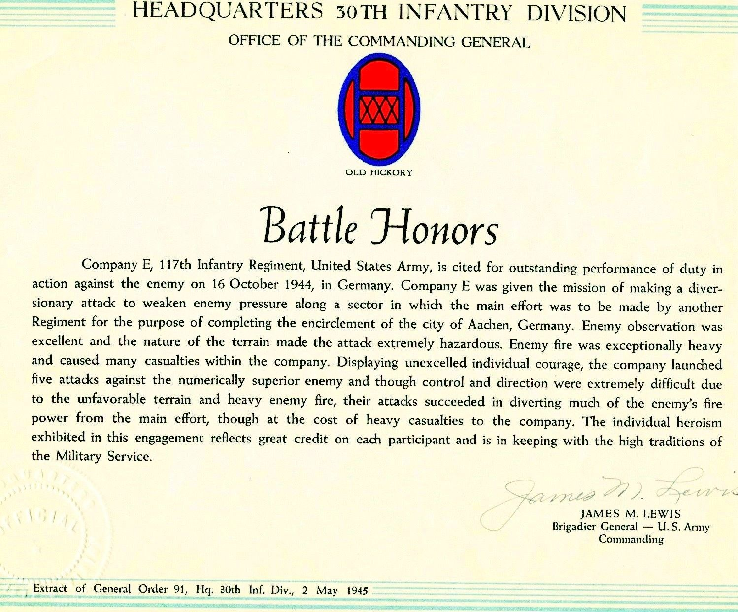 Extract from General Order 91, HQ 30th Inf Division, 2nd May 1945. Describing the Distinguished Unit Citation awared to E Company, 117th Infantry Regiment for it's actions at Aachen, October 1944